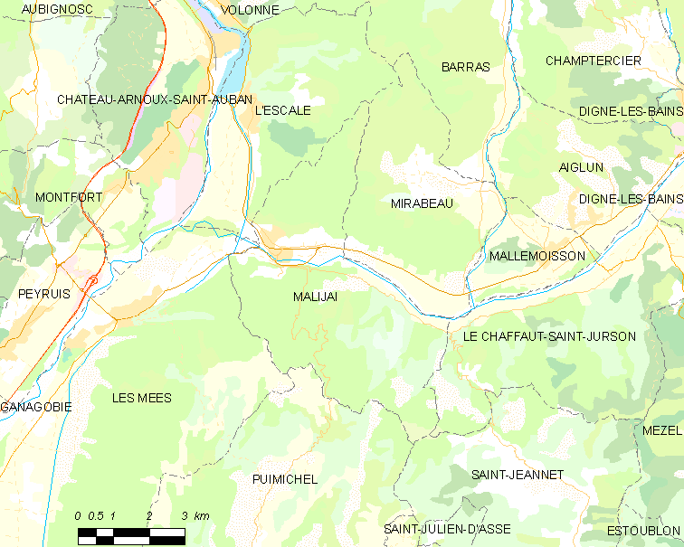 Map commune FR insee code 04108.png Légende